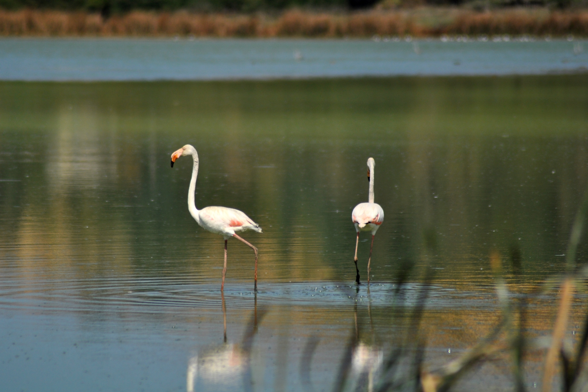 Phoenicopterus roseus, Lac des Oiseaux, National Park of El-Kala, Algeria